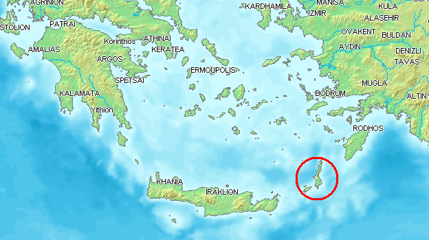 Location Karpathos, Greece